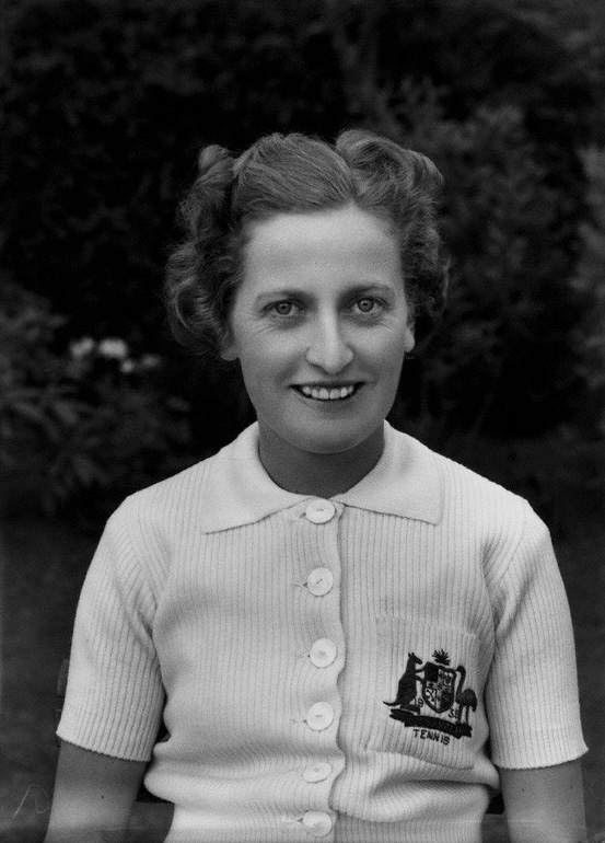 Australian tennis player Nell Hall Hopman by Bassano, half-plate film negative, 29 April 1938